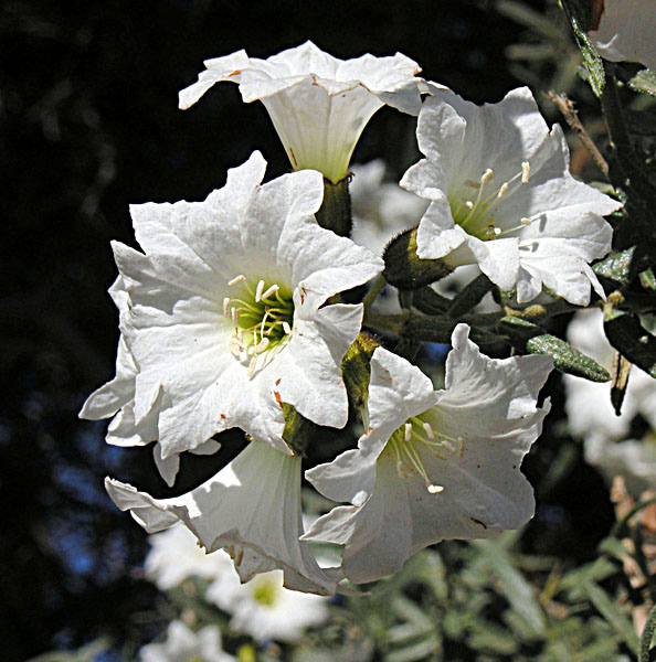 A common shrub in north-central Chile, this striking member of the Borage Family goes by the name of Carbonillo.